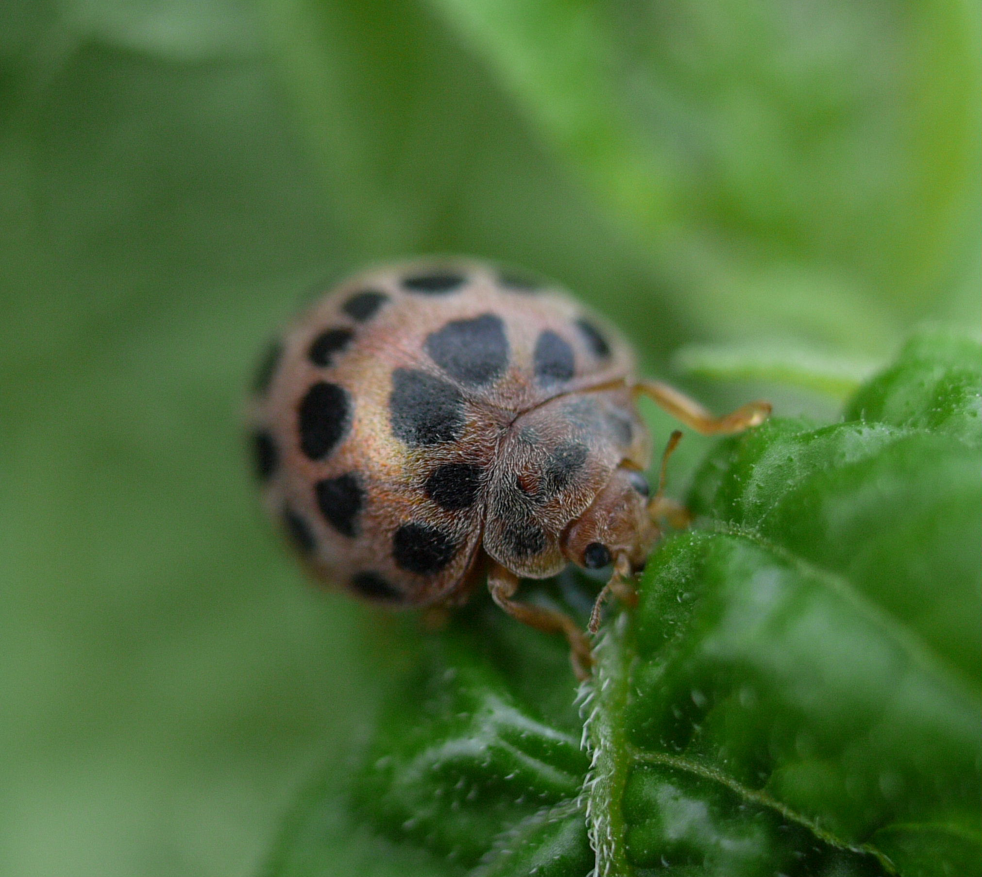 Henosepilachna vigintioctopunctata